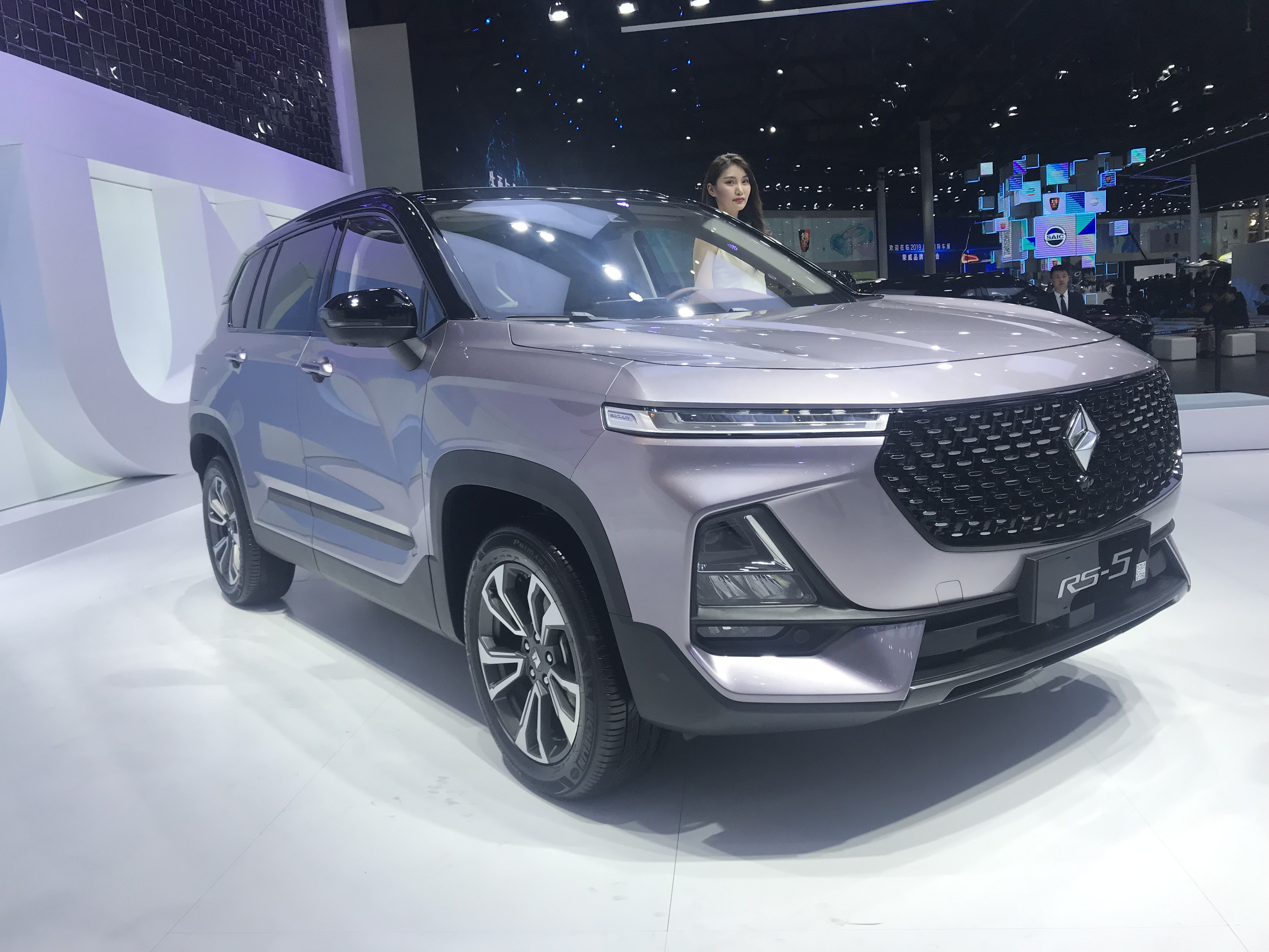 Baojun RS-5